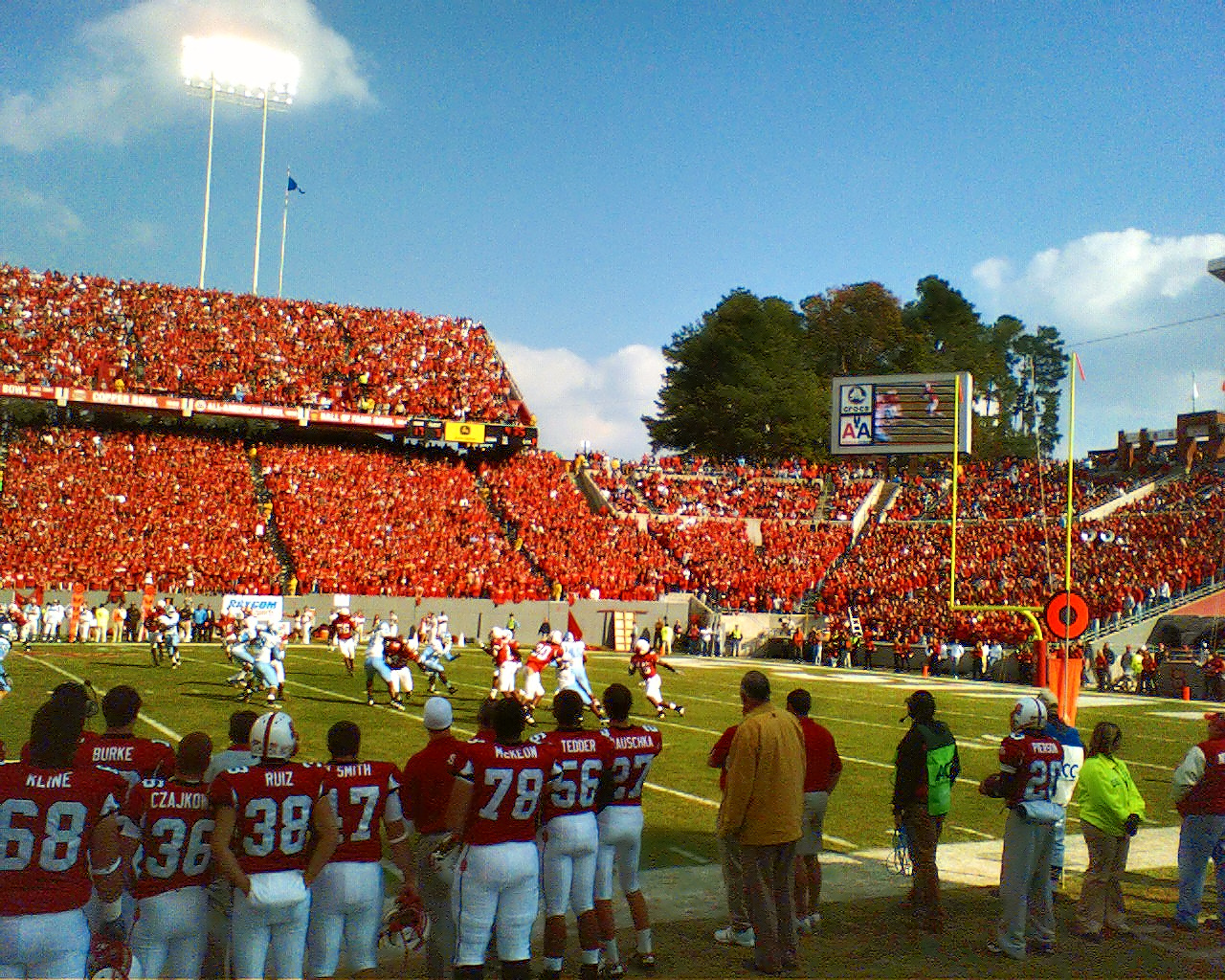 Carter-Finley Stadium, Raleigh, North Carolina